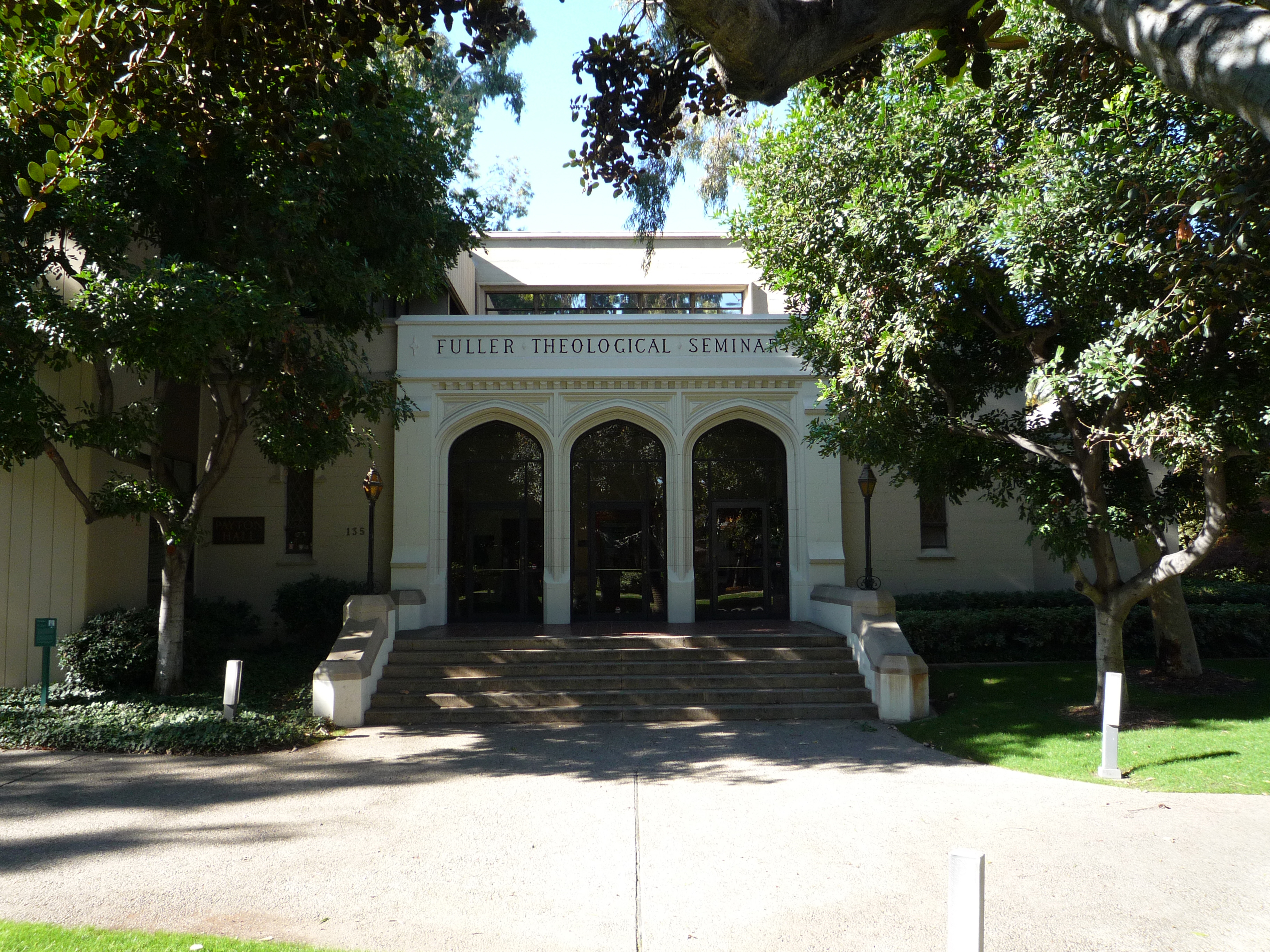 Payton Hall, on the campus of Fuller Theological Seminary — located in Pasadena, California.